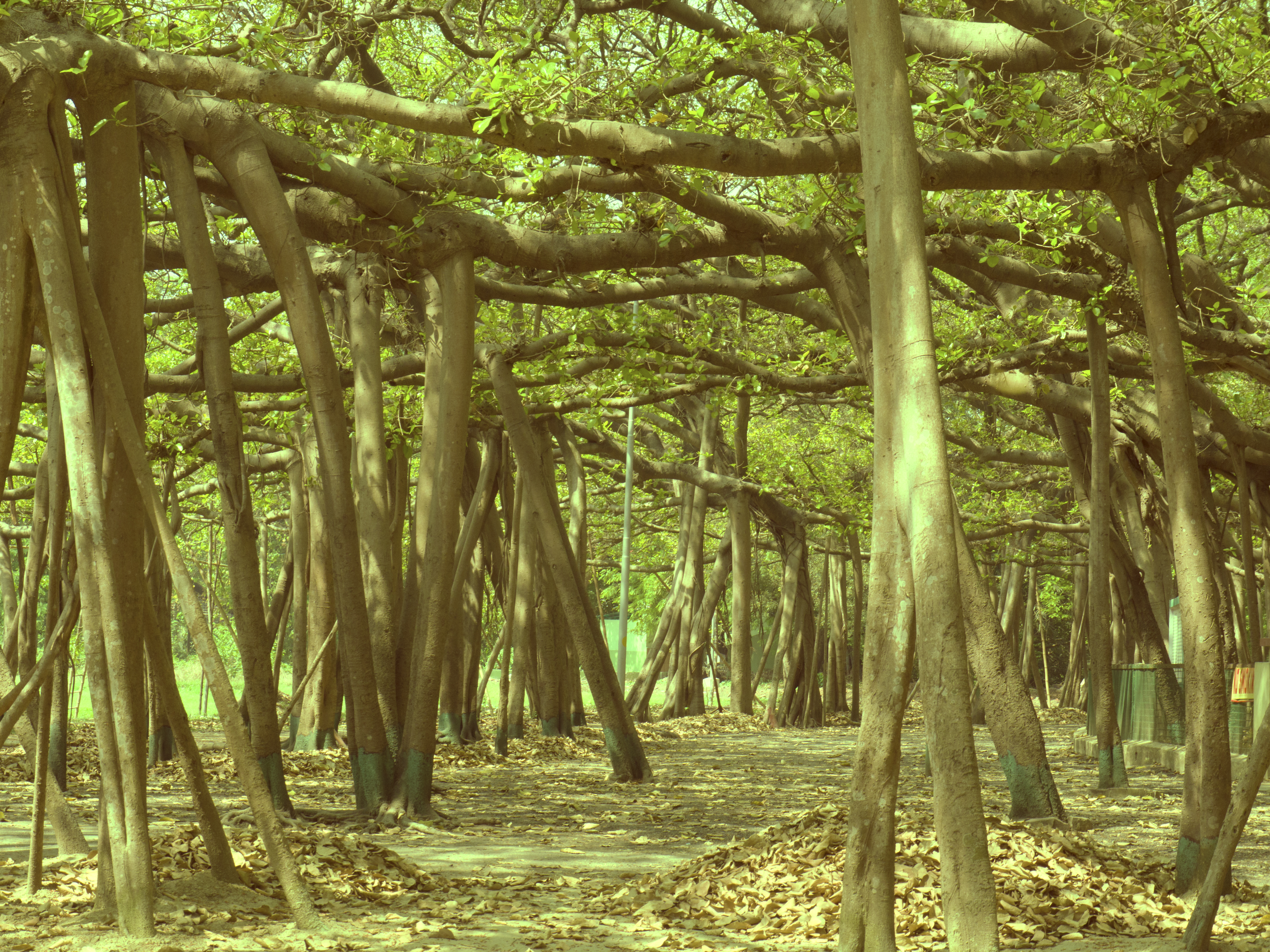 The Great Banyan Tree from under itself.